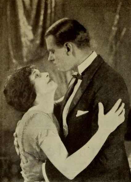 Still from the American drama film The Cradle (1922) with Charles Meredith and Anna Lehr, on page 28 of the March 1922 Photoplay.